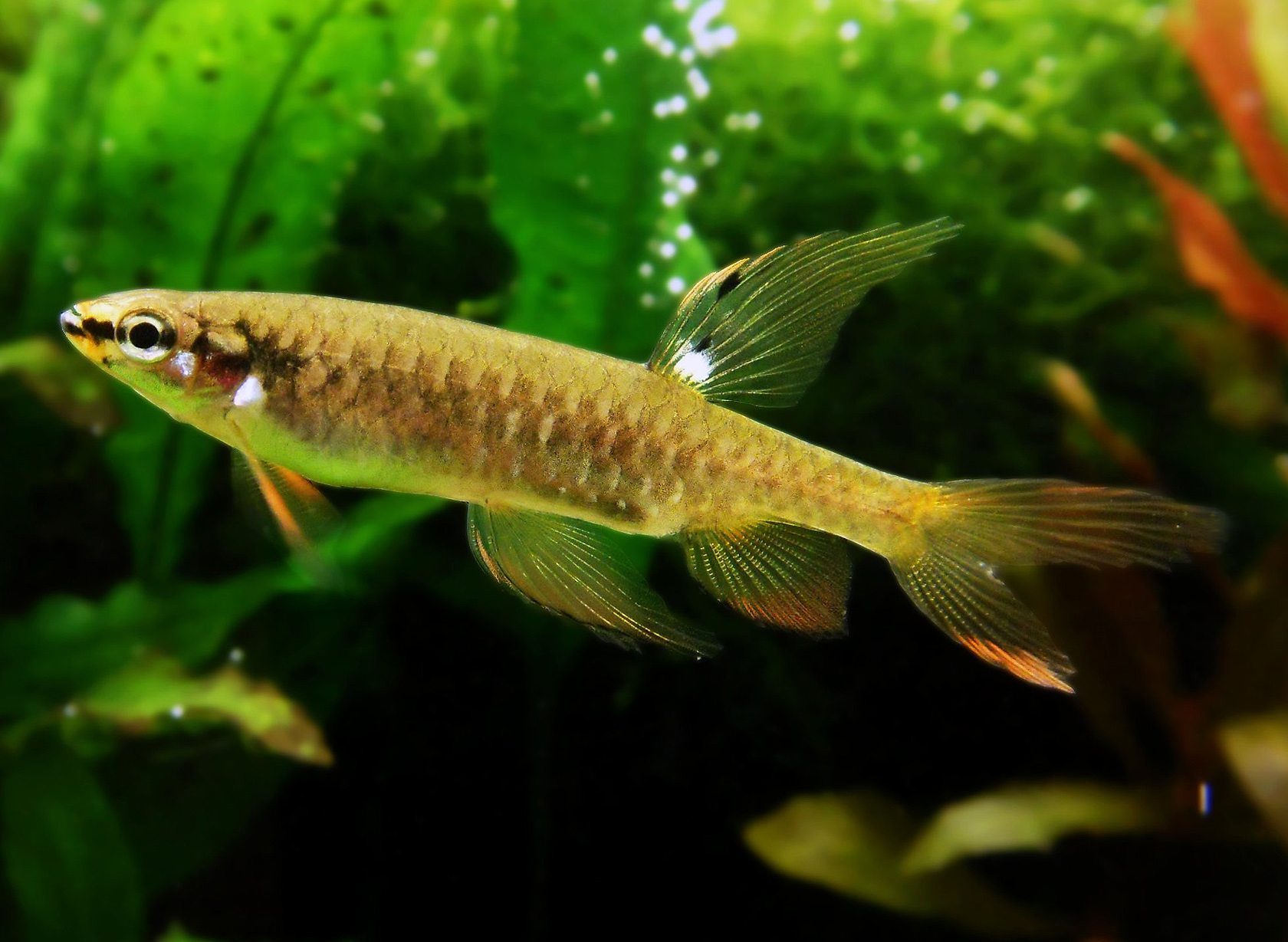 Copella arnoldi, male